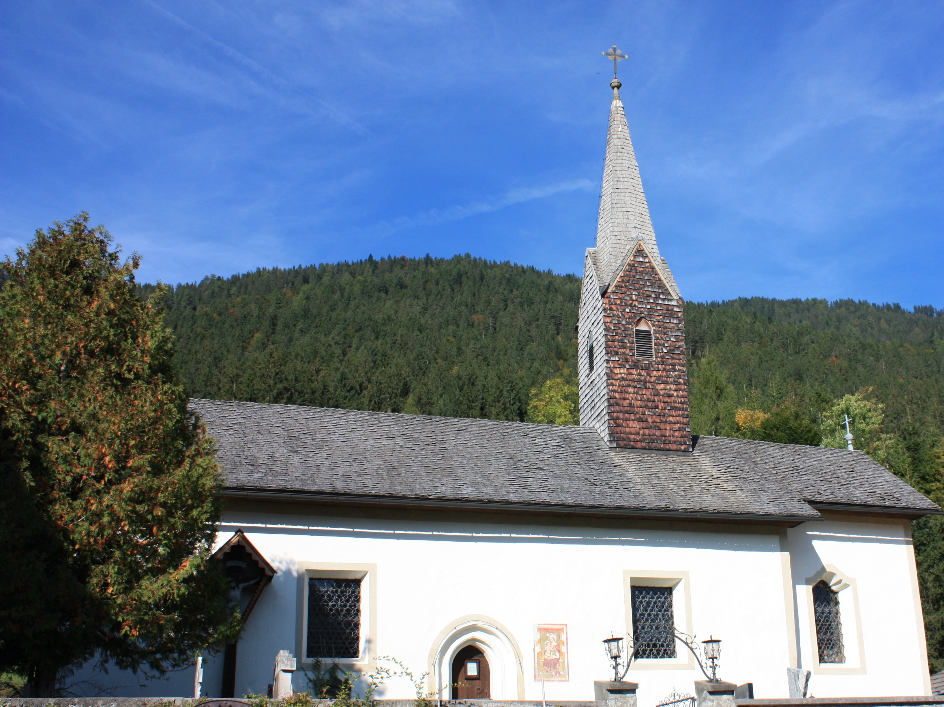 Subsidiary church Saint Martin Locality:Gatschach Community:Weißensee